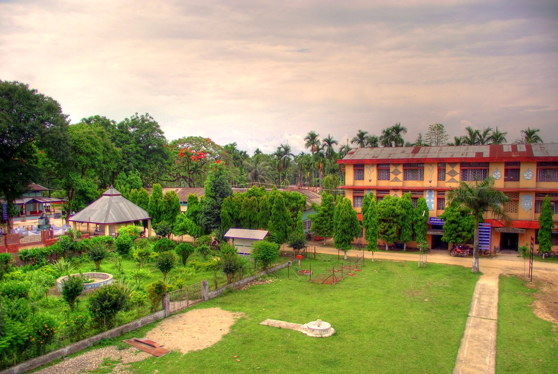 North Lakhimpur College Administrative Building Bird Eye View